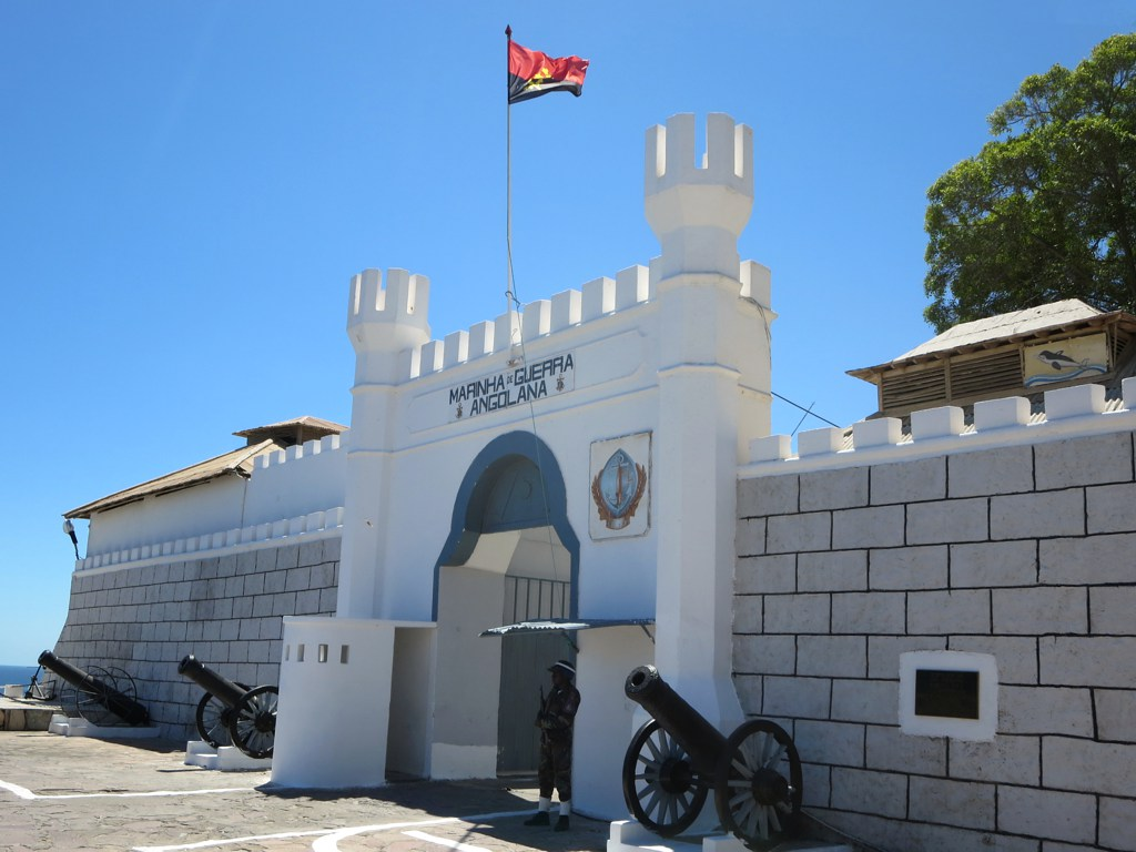 In 1844 the the Portuguese erected the Fortaleza de São Fernando on a bluff overlooking the Bay of Namibe, Angola.